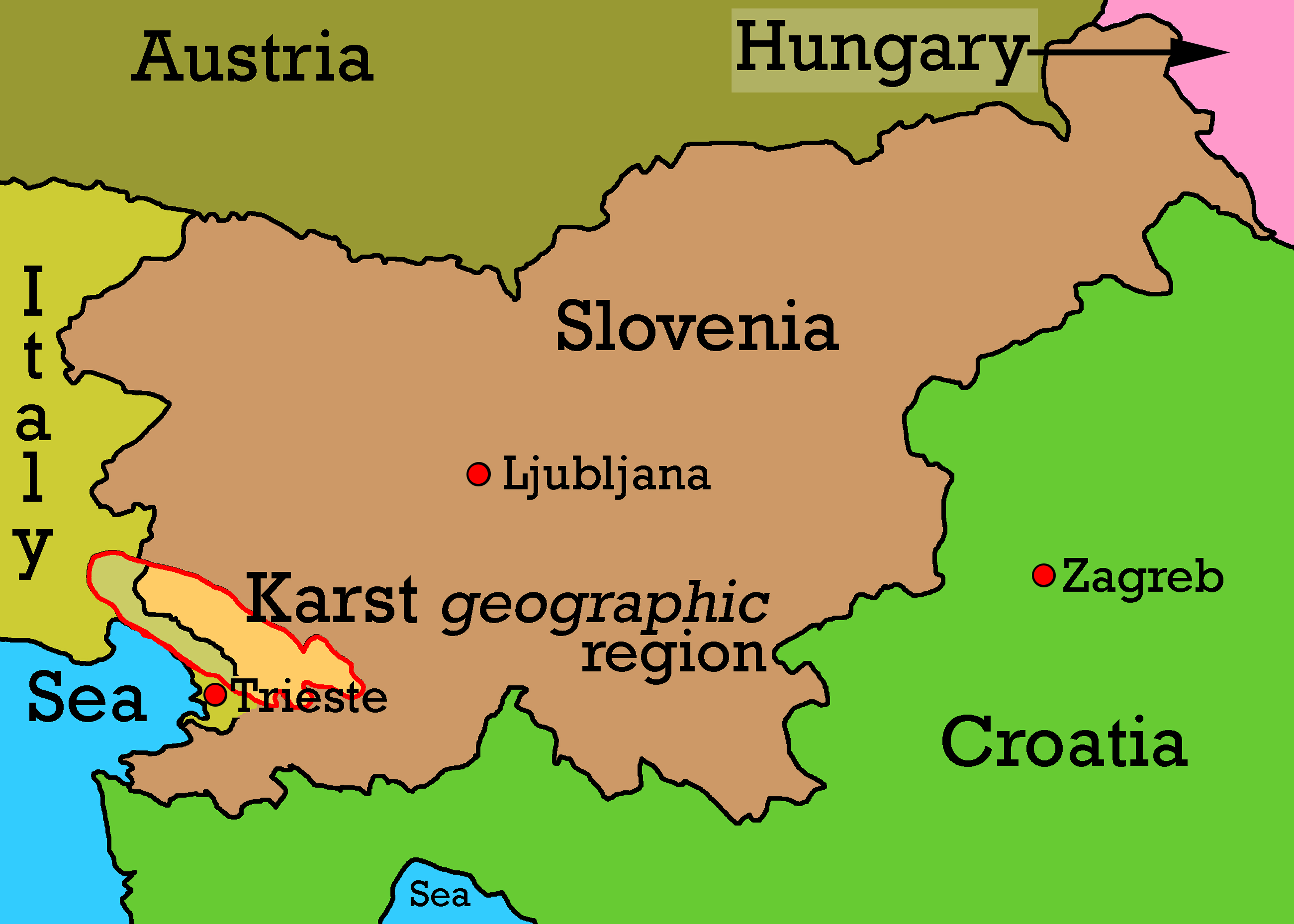 Shows the extent of the karst region south of Ljubljana in Slovenia that has given its name to the kind of topography and geology found there. A region of easily dissolved rock (often limestone), and no surface water, due to underground drainage. It typically has abrupt ridges, fissures, sink-holes, and caverns.